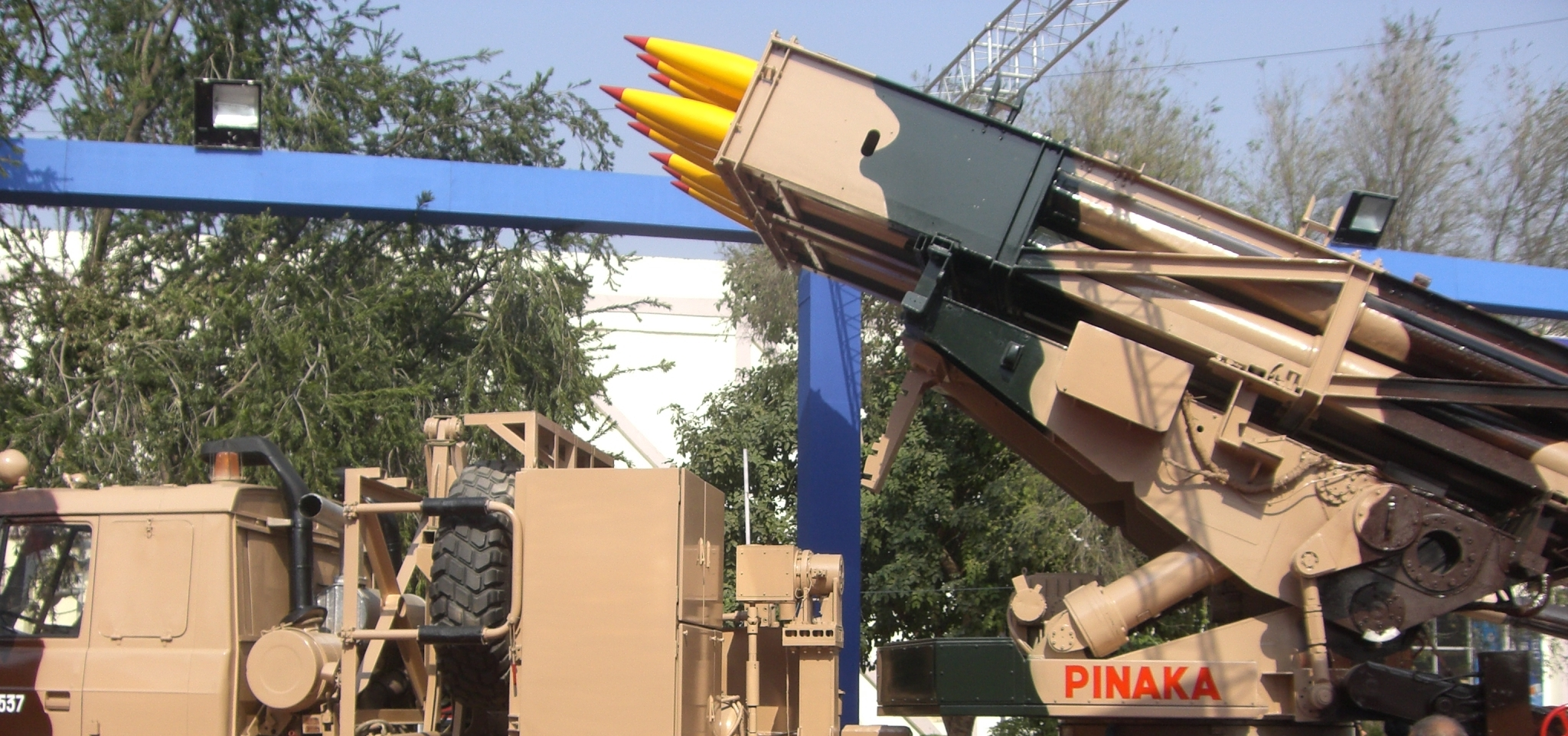 Pinaka is a multiple rocket launcher produced in India and developed by the DRDO for the Indian Army. The system has a maximum range of 39-40 km, fire a salvo of 12 HE rockets in 44 seconds, neutralizing a target area of 3.9 sq. km. The system is mounted on a Tatra truck for mobility.